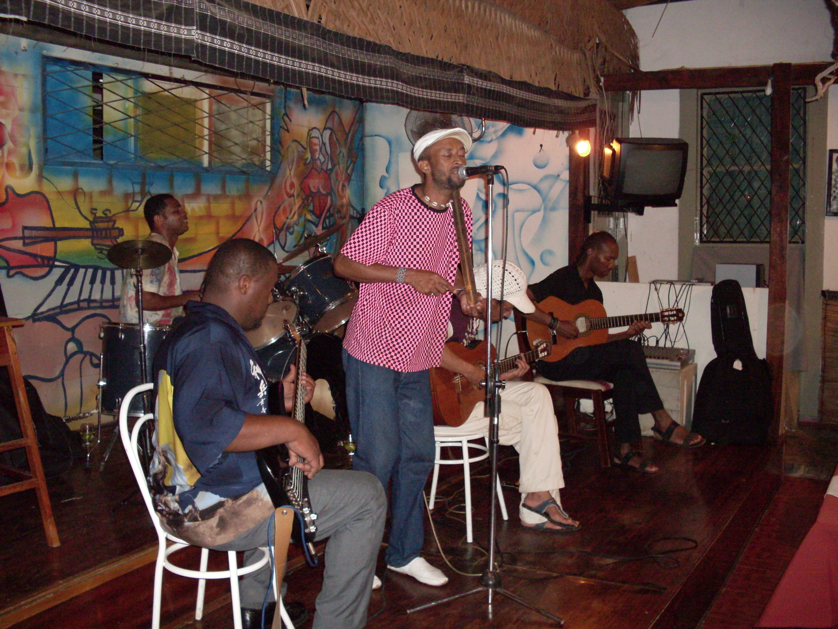 The singer Bino Branco from the band Ferro Gaita, performing with the musician Vadú